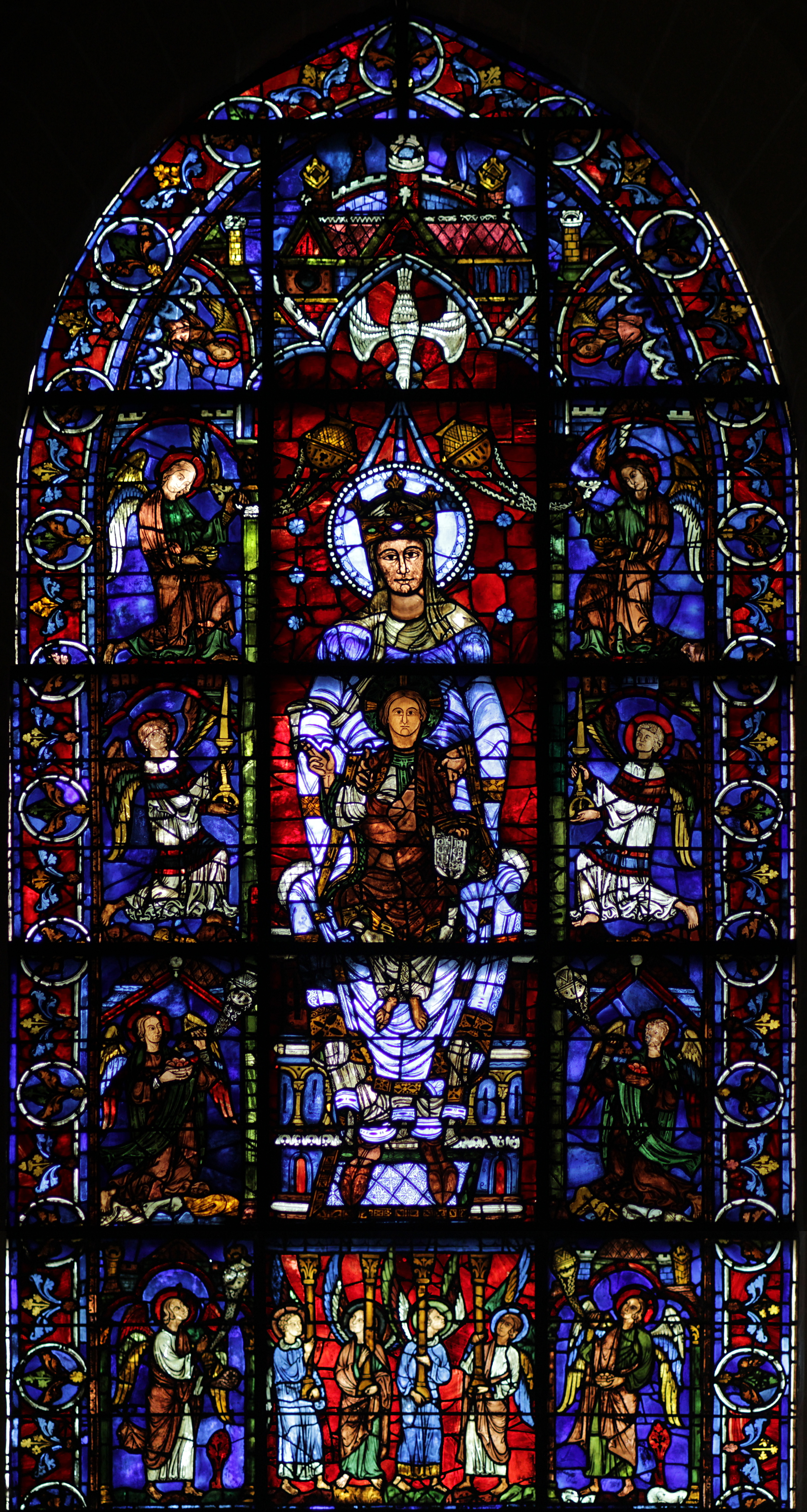 Chartres Cathedral - Notre Dame de la Belle Verrière - the three panels from end of xii century and the angel panels added as frame.